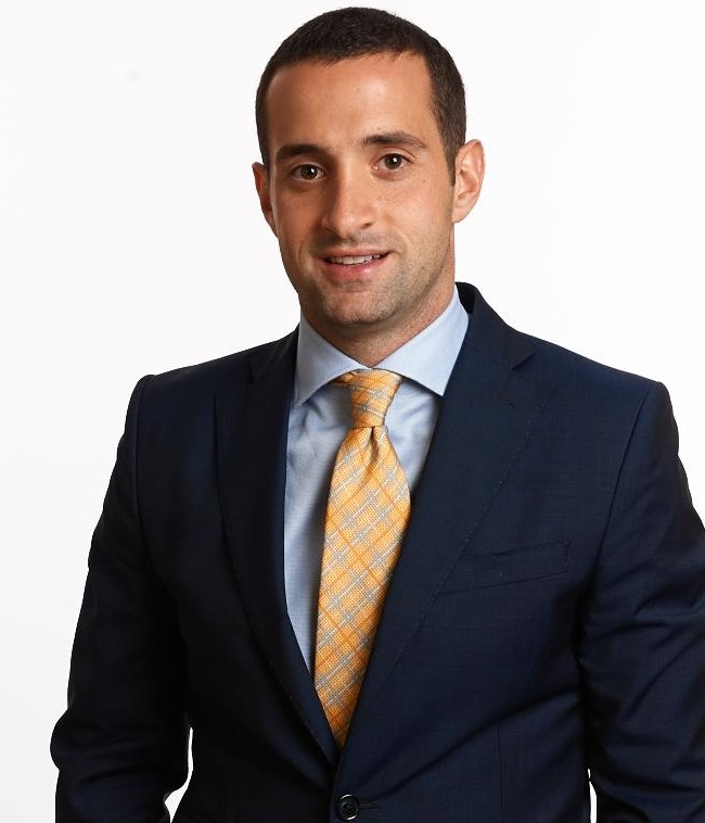 Headshot of Greg Segal